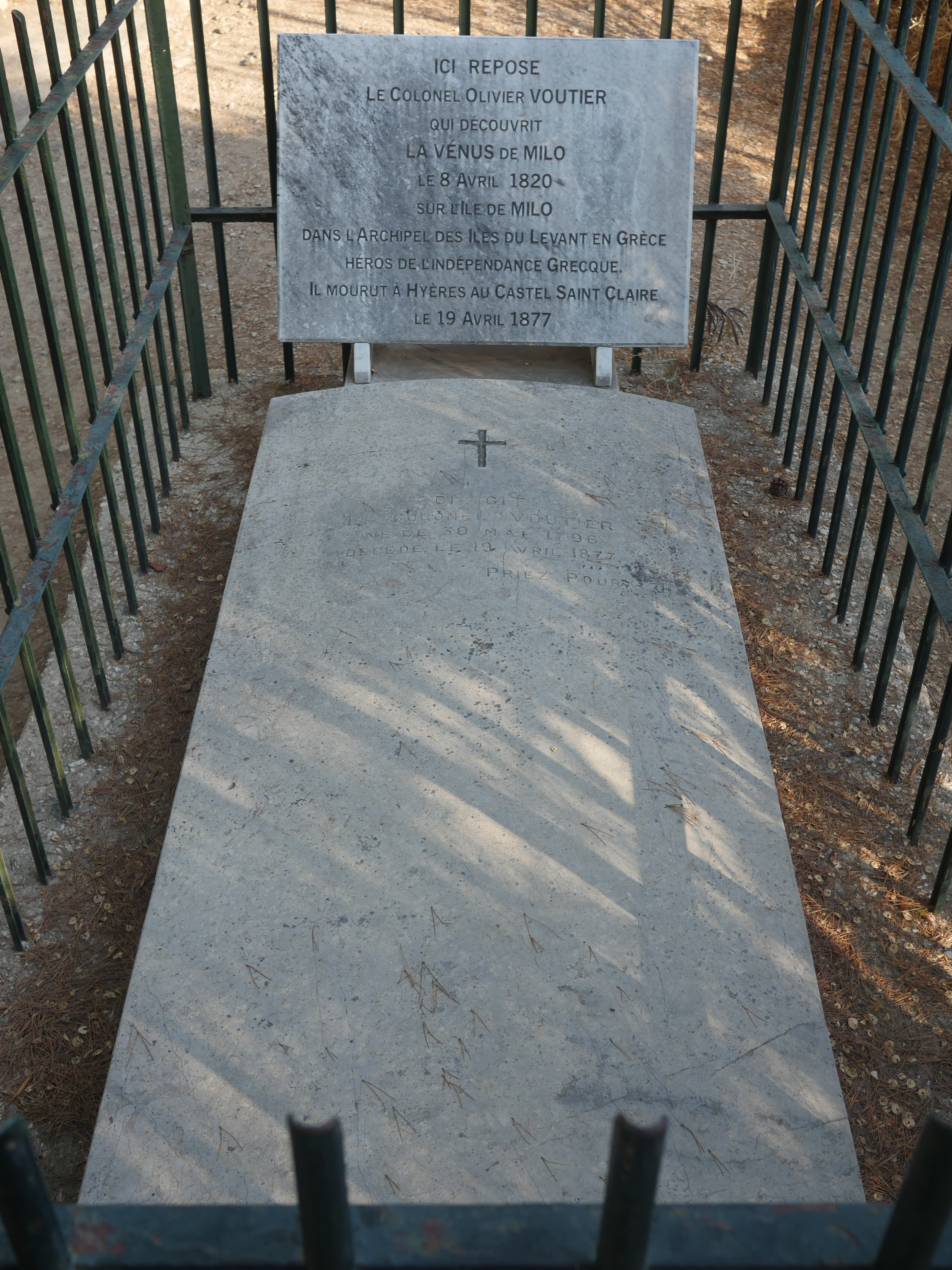 Tomb of Olivier Voutier, discoverer of the Venus of Milo.